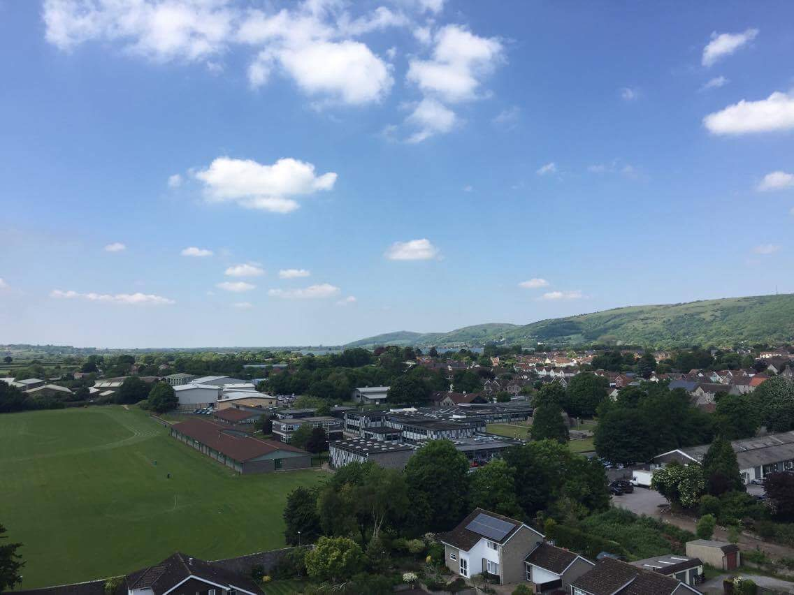 Picture of Kings from the tower of St Andrews Church